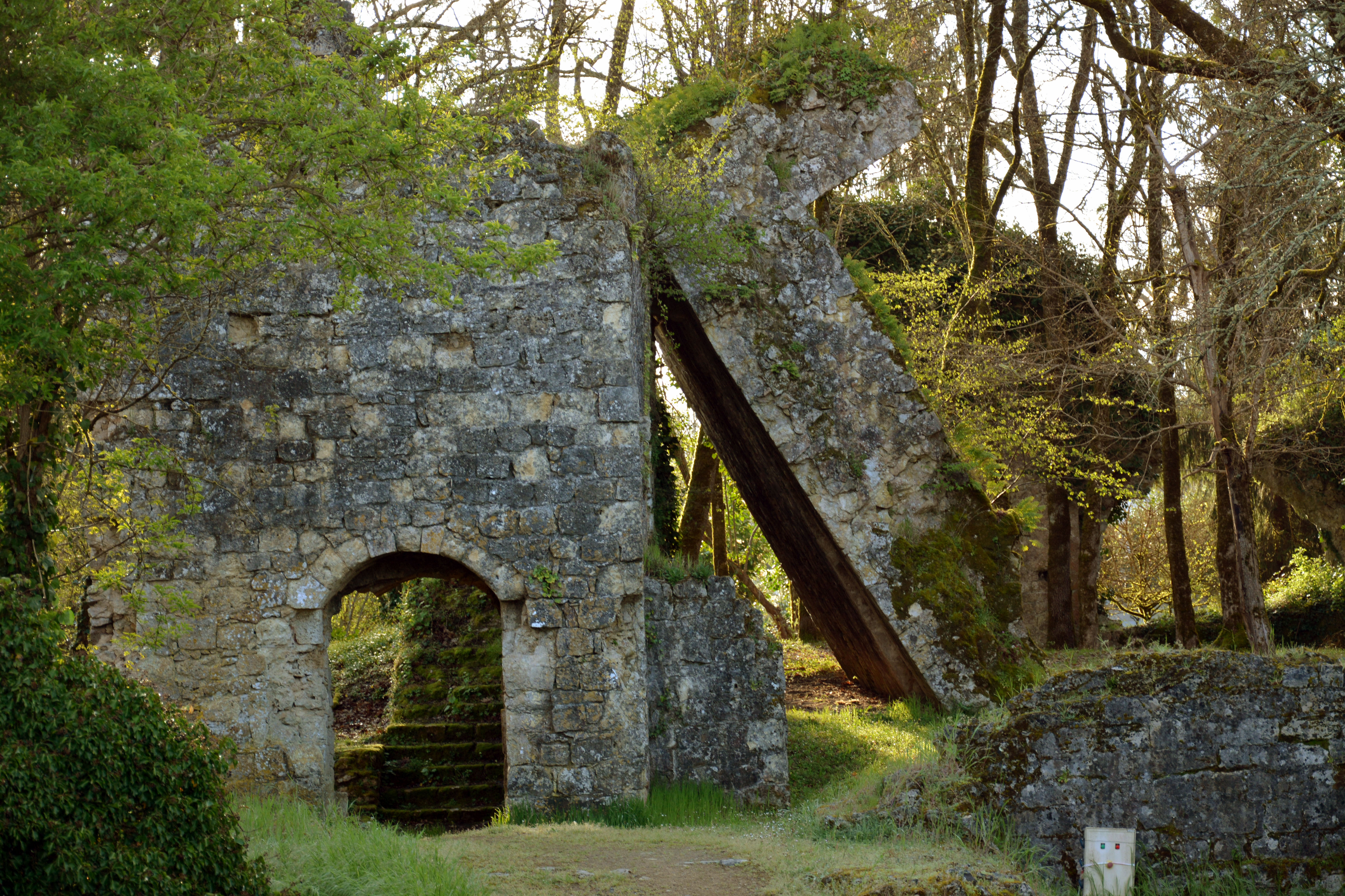 Château de la Trave (ruins) , found by the road D 222, located north-east of the center of the town of Préchac (Gironde, France) on the left bank of the river Ciron (here in April 2016). This medieval castle ruin is a listed historical building.